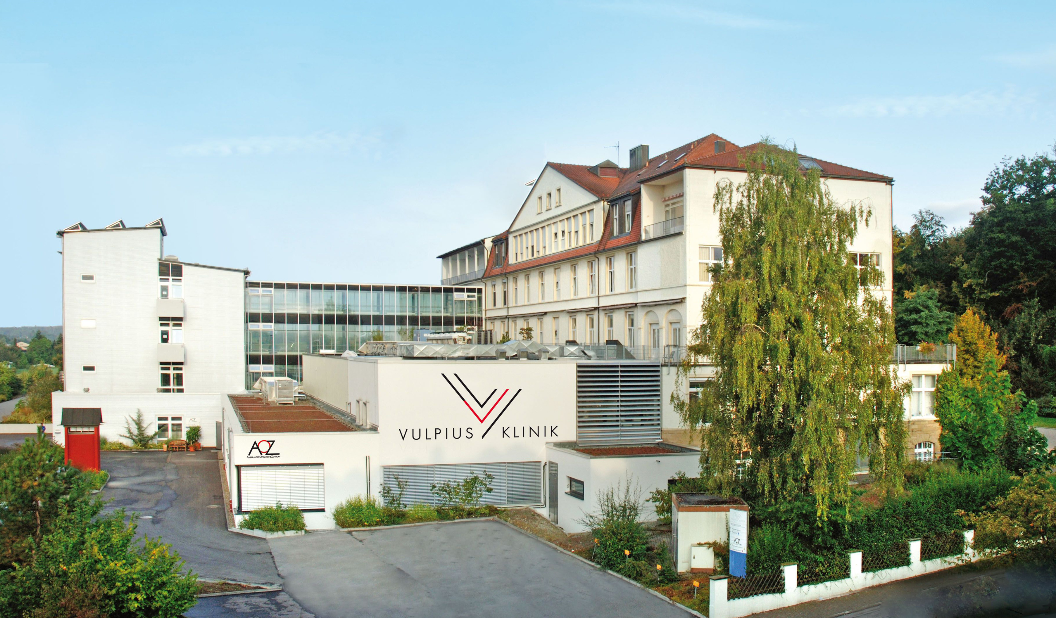 Vulpius Klinik, Bad Rappenau